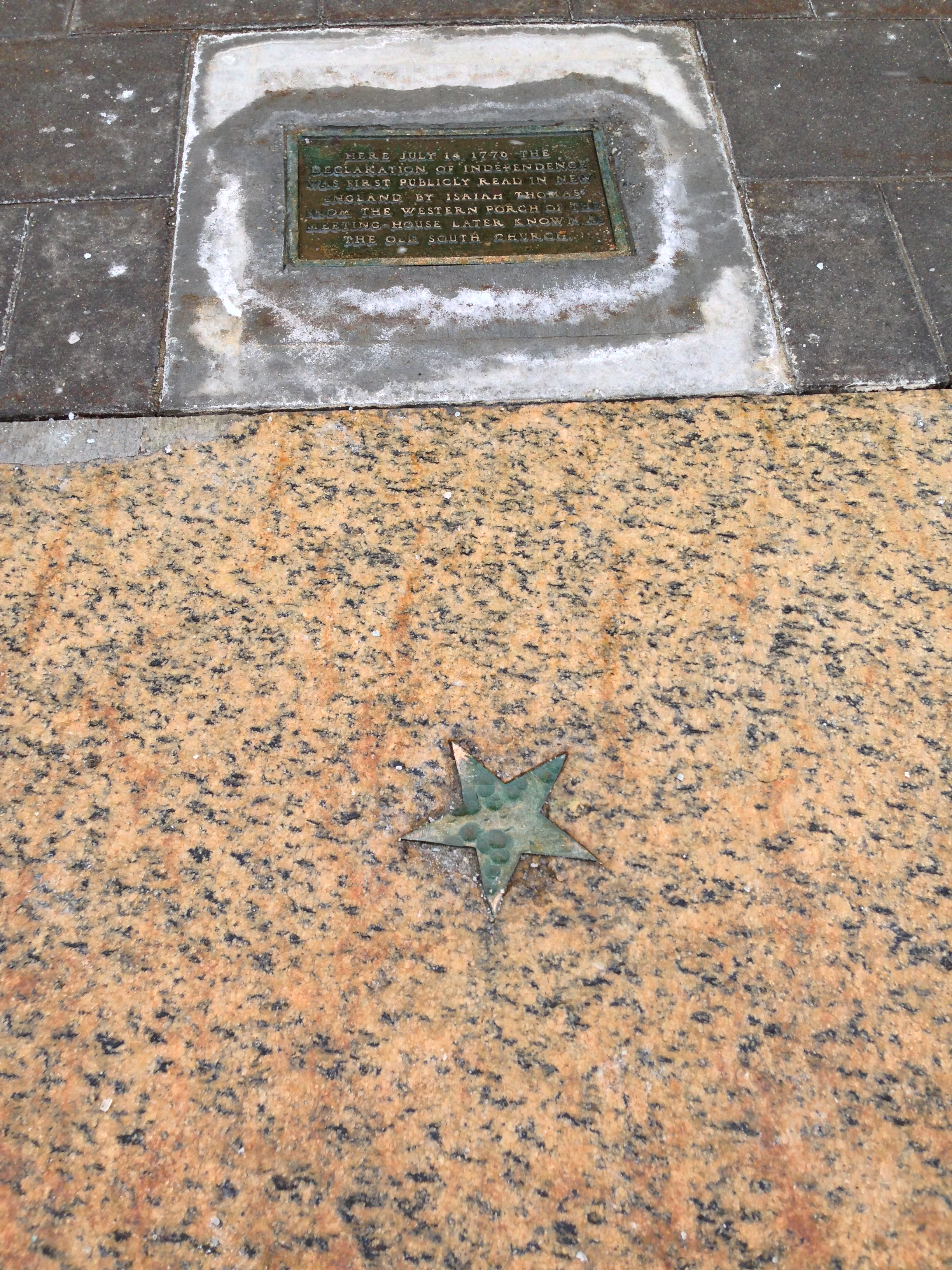 The star monument in the sidewalk in front of the Worcester city hall in Massachusetts indicates the spot (the western porch of the Old South Church) that the Declaration of Independence was first read publicly in New England by Isaiah Thomas on July 14, 1776.